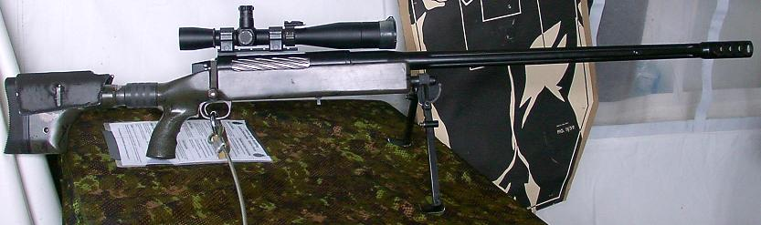 Canadian Forces MacMillan Tac-50 with a Leupold Mark 4-16x40mm LR/T M1 Riflescope optical sight mounted, photographed at the Armed Forces display at the Calgary Stampede on 10 July 2006. This is the actual weapon Corporal Rob Furlong of the Princess Patricia's Canadian Light Infantry (PPCLI) used to kill an enemy combatant from 2,430 meters.